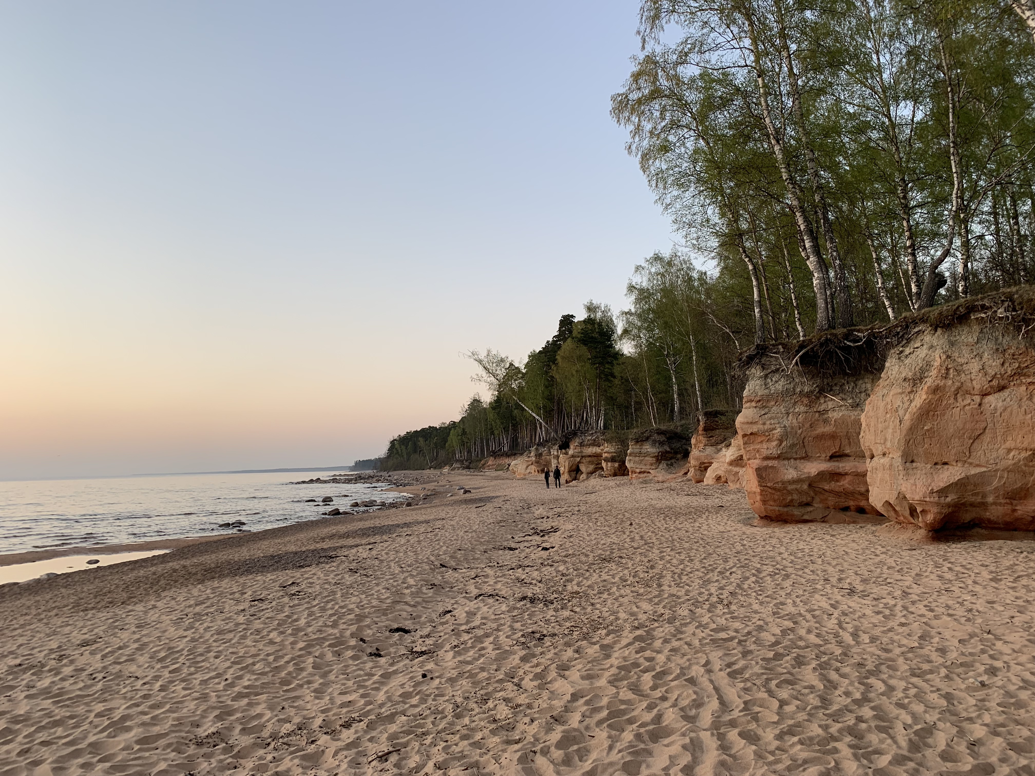 protected area virdzeme